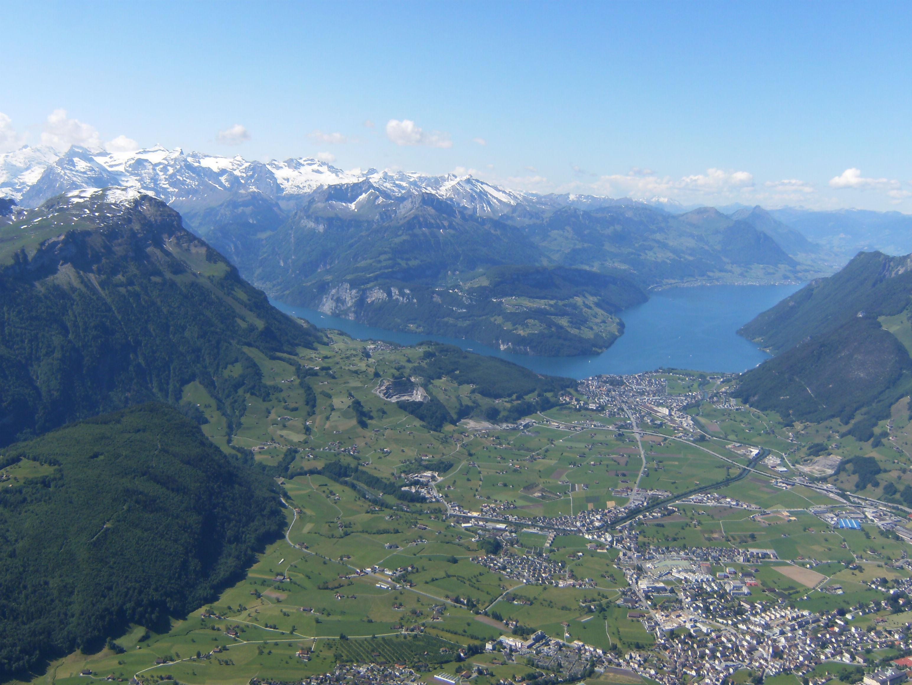 Brunnen (Sz) and Seelisberg (UR), Switzerland.